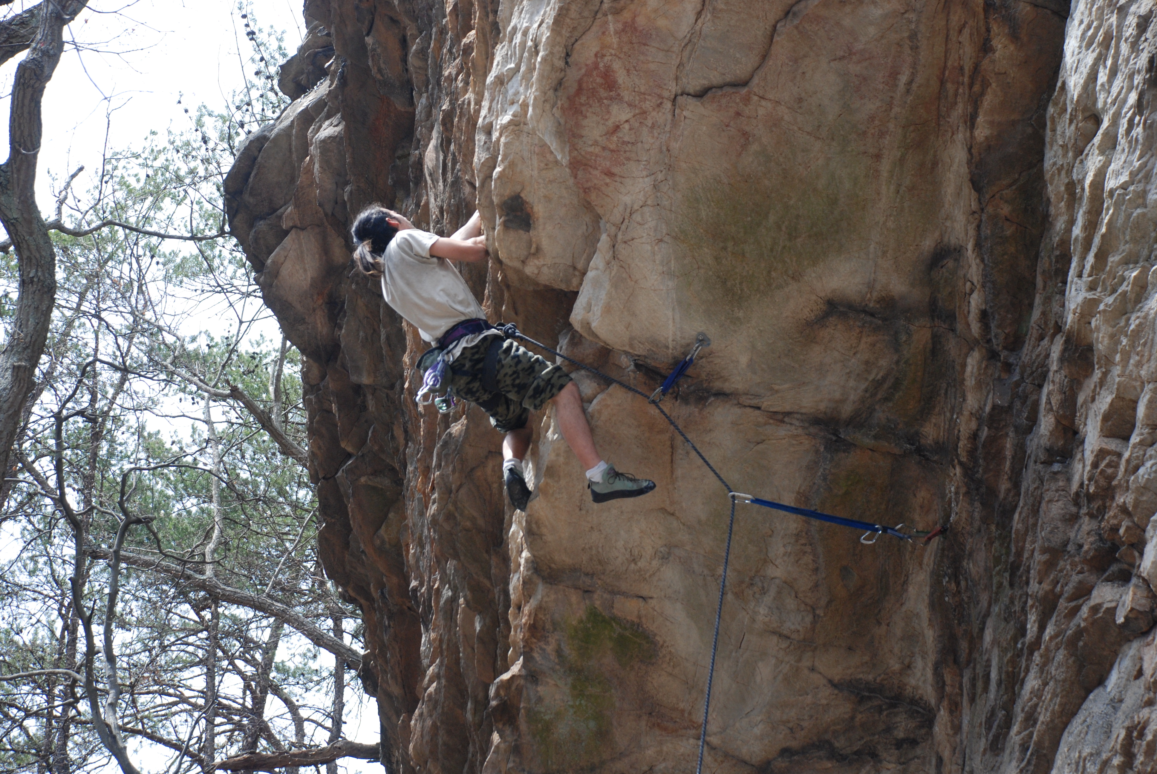 Climber during crux sequence at the roof of Furnass 5.12a at Elizabeth Furnace crag near Front Royal, Virginia.